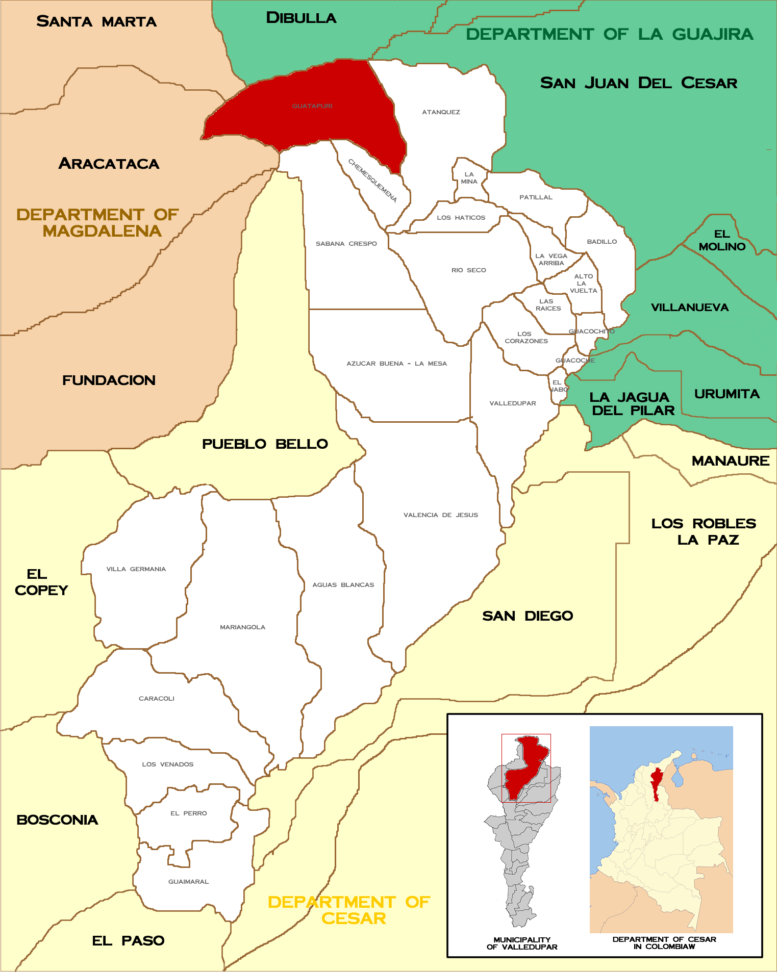 Map of Corregimientos of Valledupar, Guatapuri